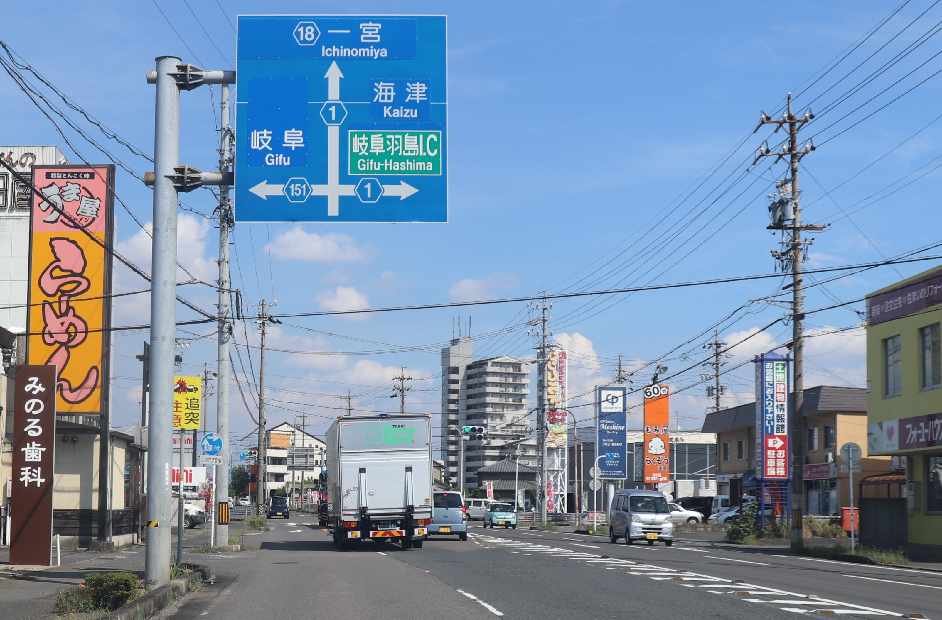 Gifu Prefectural Road Route 1 Gifu Prefectural Road Route 18 and Gifu Prefectural Road Route 151 in Fukujucho, Hashima, Gifu Prefecture, Japan.